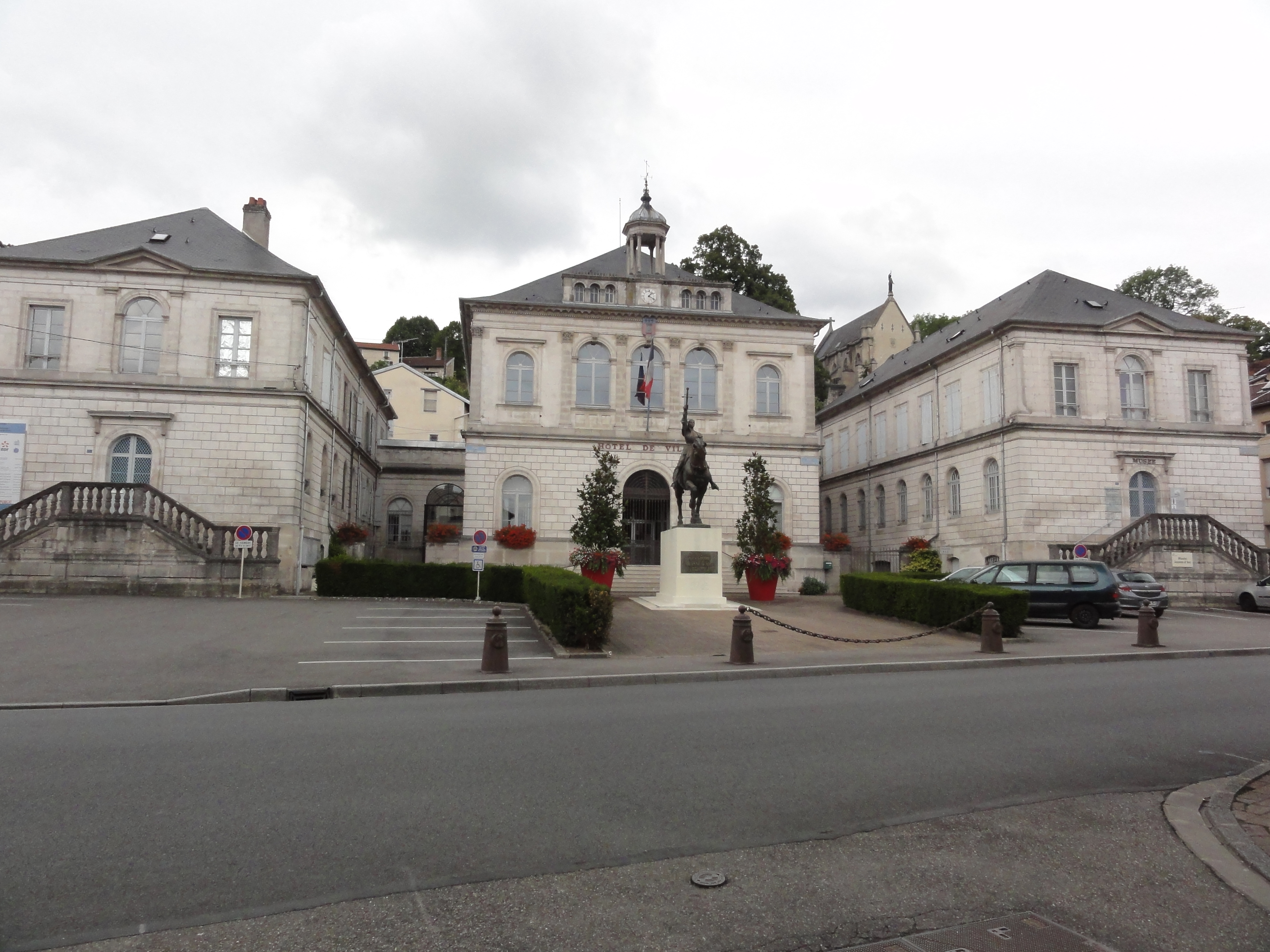 Vaucouleurs (Meuse) mairie et musée (droite)